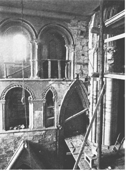 Tidarosdomen, Trondheim, Norway, before restoration. Transept walls cracking due to differential settlement of the central tower.